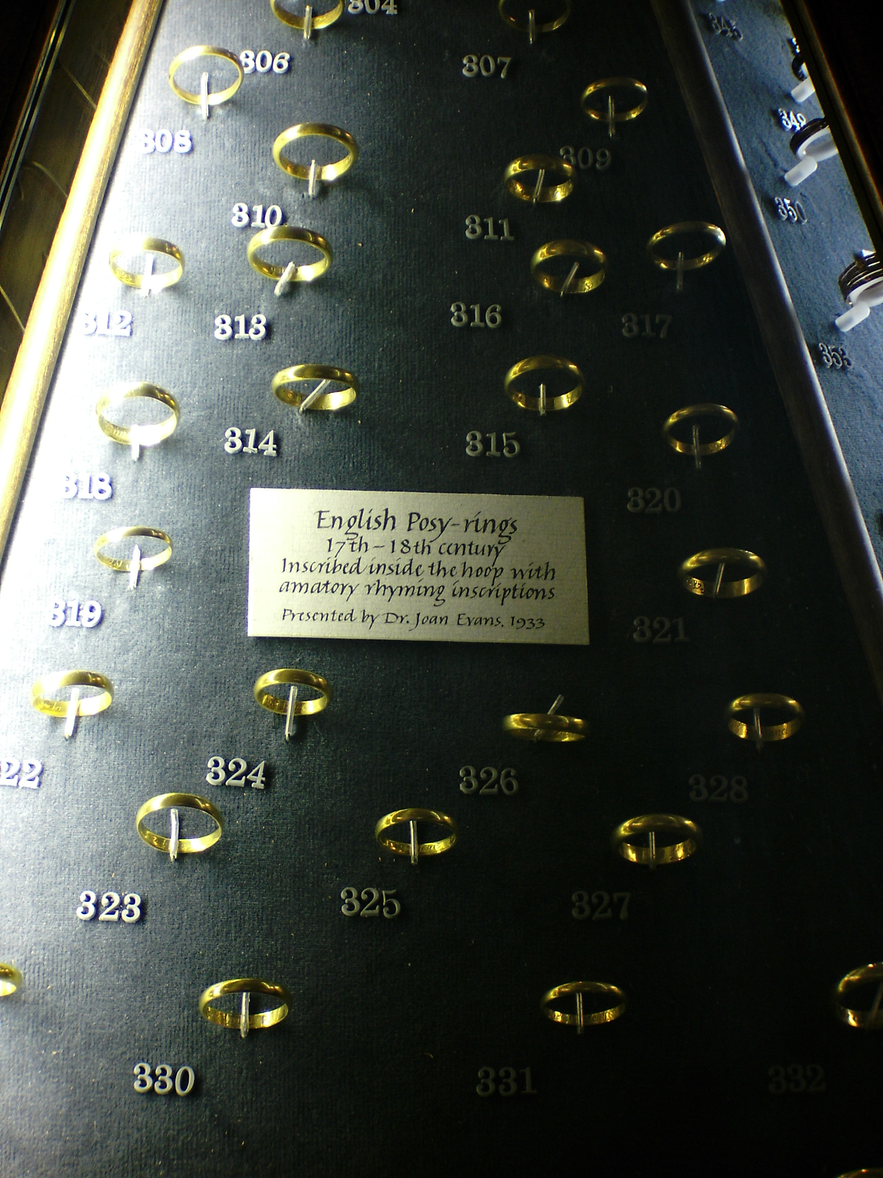 These Posy rings in the Ashmolean Museum (Oxford) are suspiciously similar to Tolkien's One Ring, I wonder whether they were the inspiration for the inscribed ring?